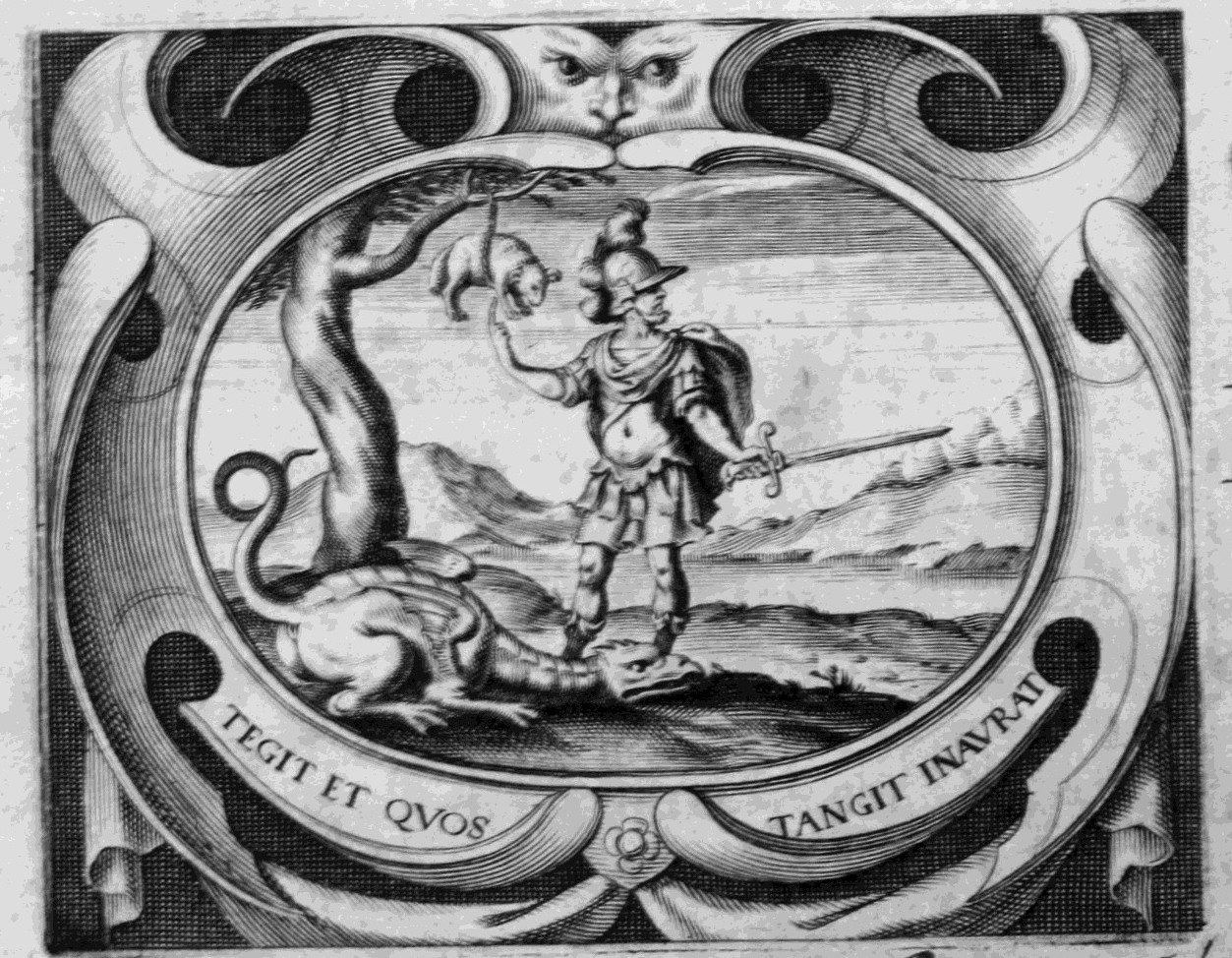 Histoire de Béarn by Pierre de Marca. Paris, 1640